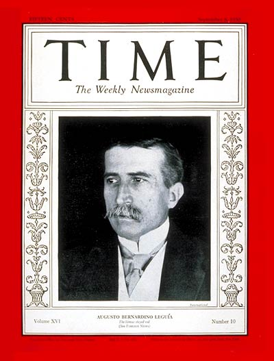 Augusto B. Leguia TIME cover.